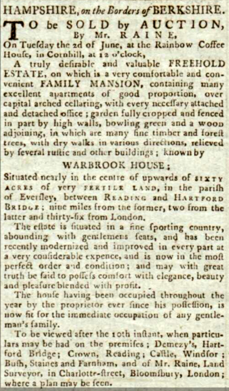 Sale notice for Warbrook House 1795